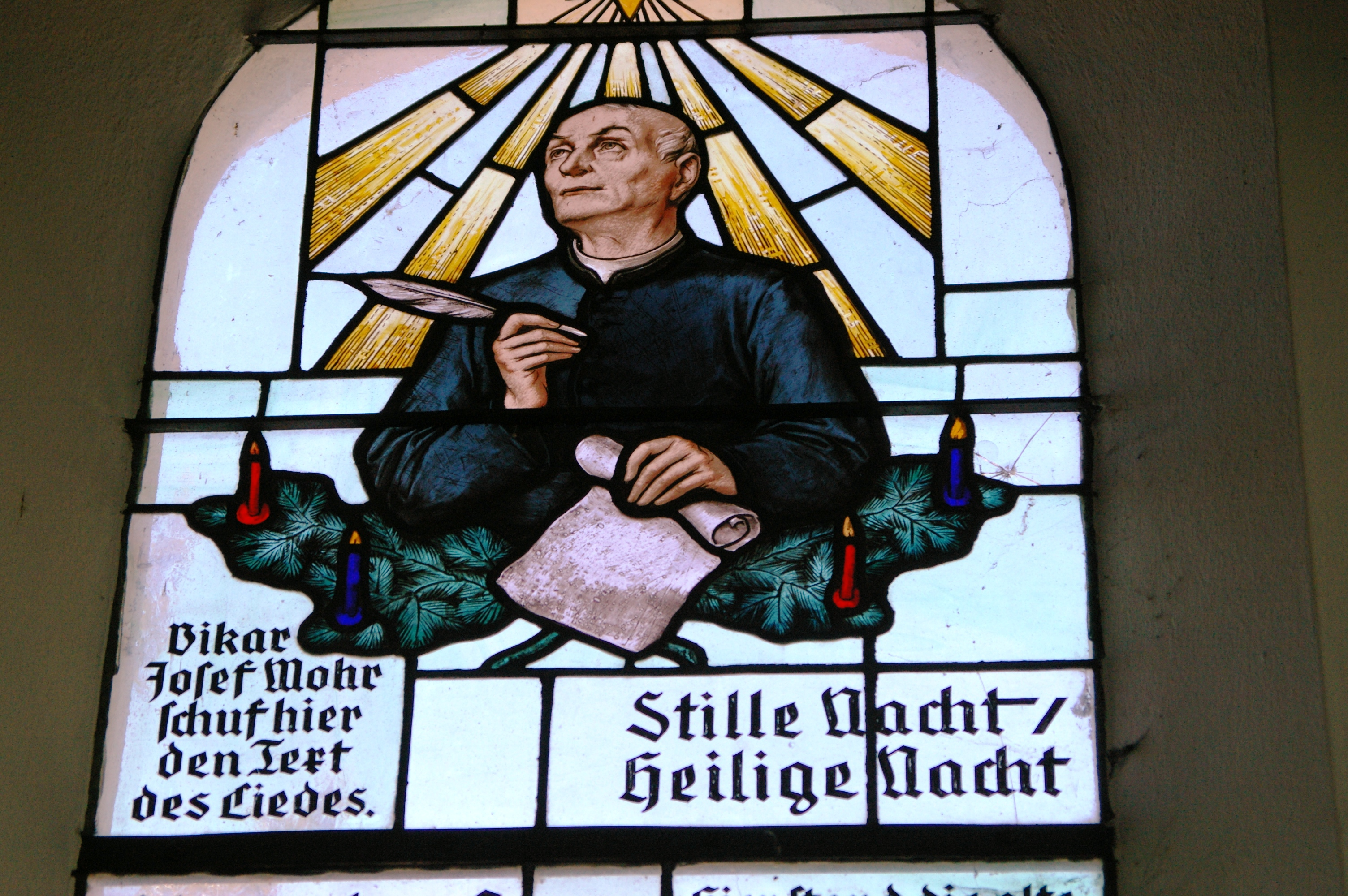 Silent Night Chapel